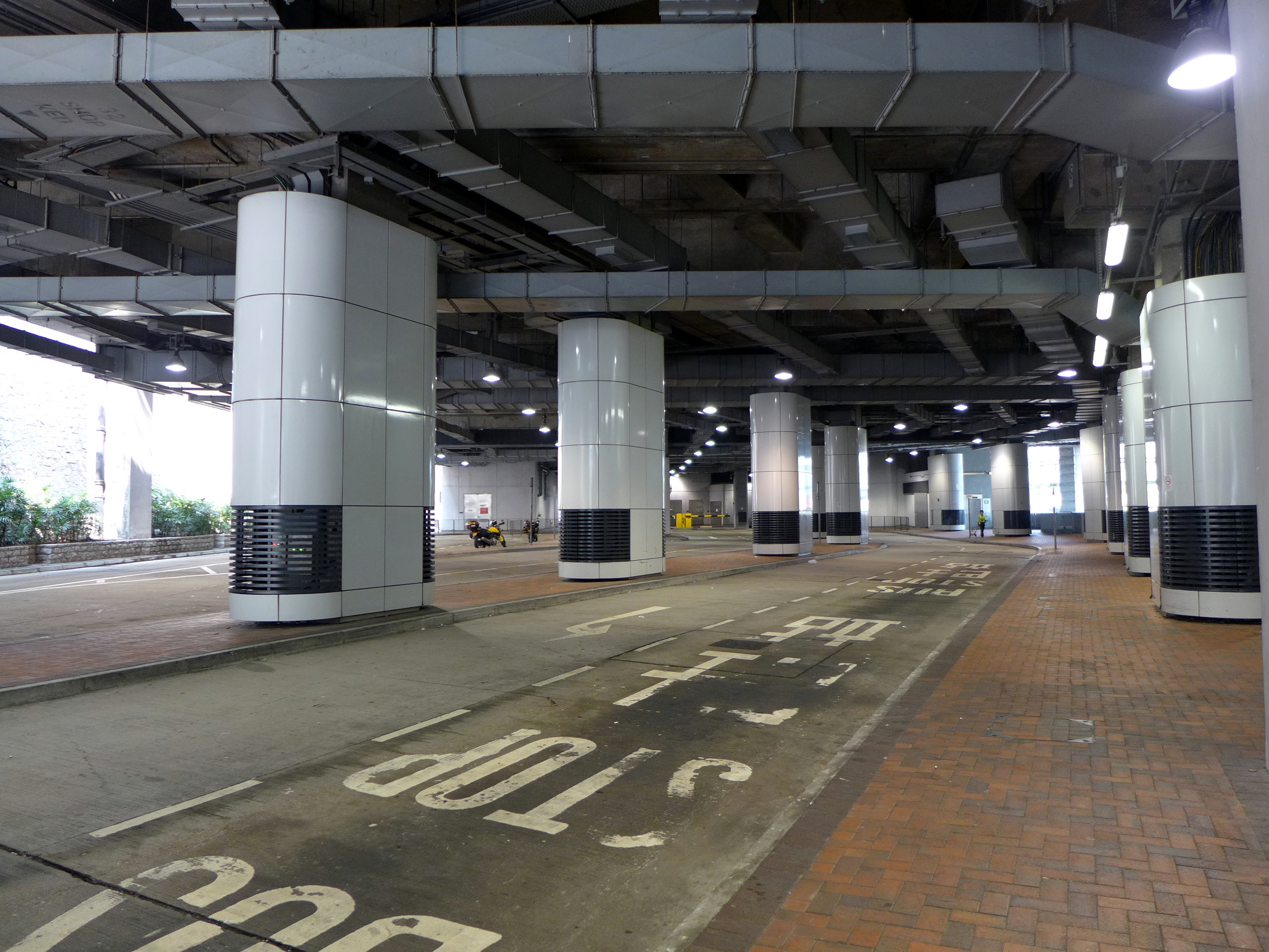 East Tsim Sha Tsui Station Public Transport Interchange